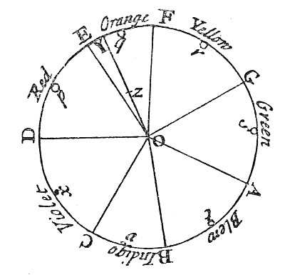 "In a mixture of primary colours, the quantity and quality of each being given, to know the colour of the compound." Throughout Opticks, Newton compared colours in the spectrum to a run of musical notes. To this purpose, he used a Dorian mode, similar to a white-note scale on the piano, starting at D. He divided his colour wheel in musical proportions round the circumference, in the arcs from DE to CD. Each segment was given a spectral colour, starting from red at DE, through orange, yellow, green, blew [sic], indigo, to violet in CD. (The colours are commonly known as ROY G BIV.) The middle of the colours—their 'centres of gravity'—are shown by p, q, r, s, t, u, and x. The centre of the circle, at O, was presumed to be white. Newton went on to describe how a non-spectral colour, such as z, could be described by its distance from O and the corresponding spectral colour, Y. A higher resolution image of this would be nice, if someone has access to one.